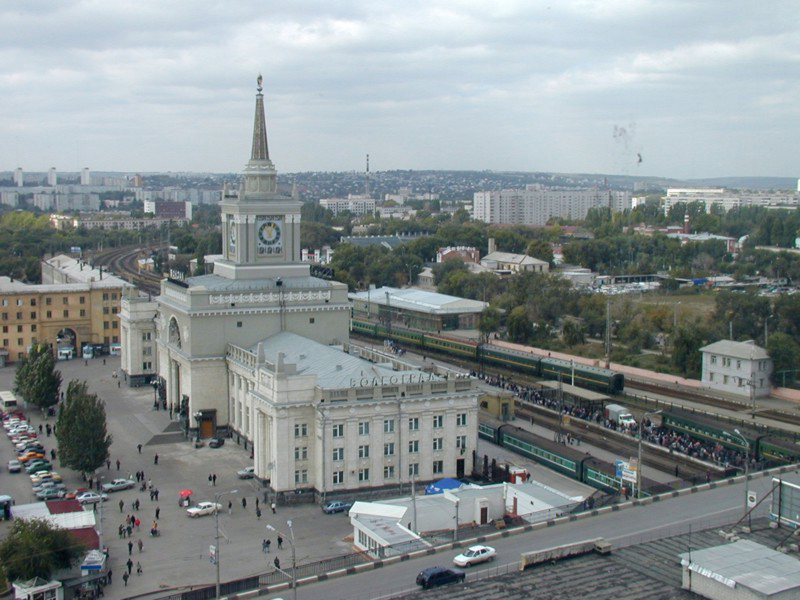 Railway Station Volgograd I